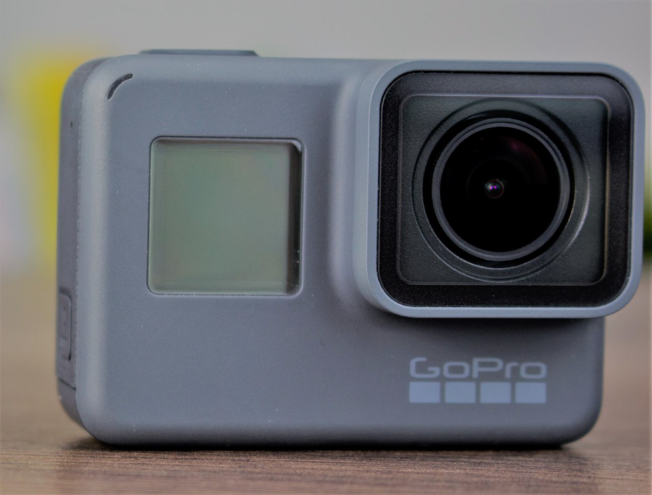 Camera GoPro Hero5 Black